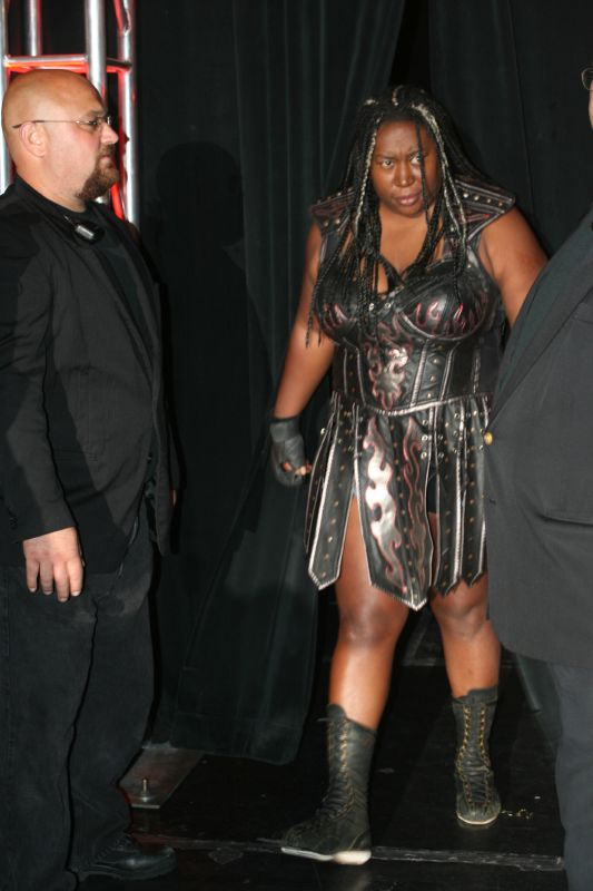 Professional wrestler Awesome Kong (real name Kia Stevens) entering the arena at a TNA show on September 6, 2008.